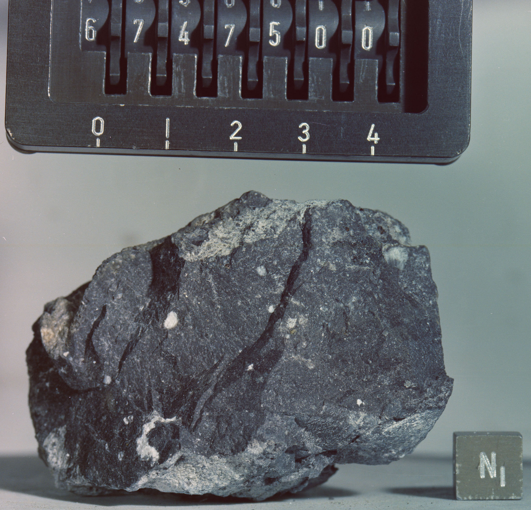 Breccia, Apollo 16 lunar sample 67475, collected at North Ray on the moon.